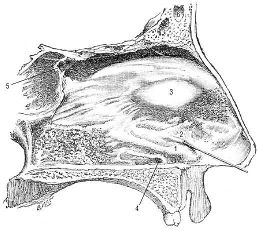 Potiquet’s 1891 anatomical illustration shows the openings of both the nasopalatine duct and vomeronasal organ. Captions: 1) pad made of Jacobson’s cartilage; 2) opening of Jacobson’s canal, into which a probe has been inserted; 3) septal tubercle; 4) nasopalatine infundibulum (funnel) leading to the nasopalatine canal through the bone; 5) opening of the sphenoidal sinus; and 6) frontal sinus. Potiquet M. Le canal Jacobson. Rev Laryngol Otol Rhinol. 1891;2:737-753.